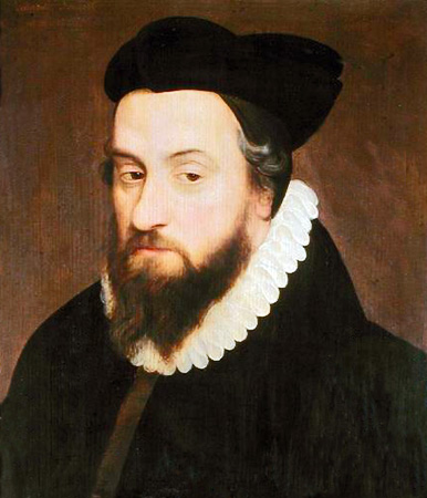 Portrait of Laurent Joubert (1529-1583).